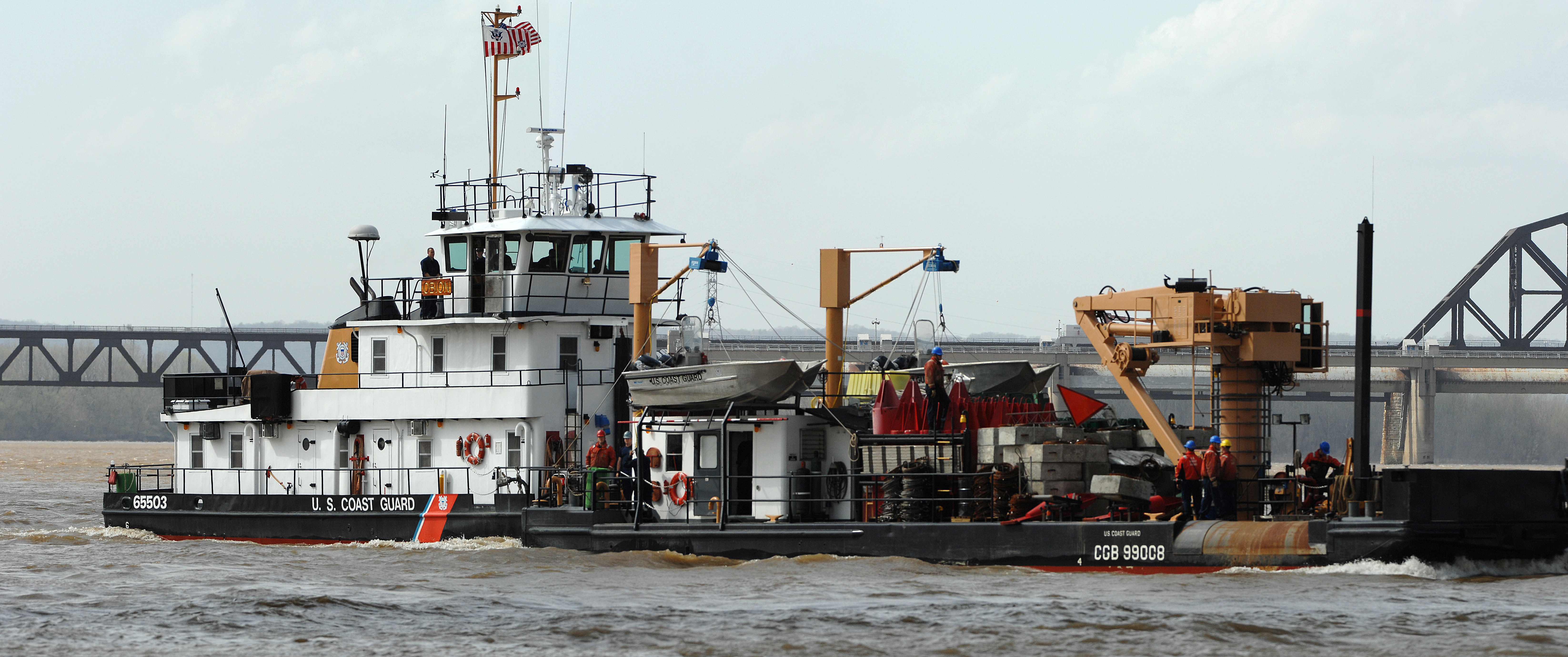 USCGC OBION is a 65' Class B River Buoy Tender and 100' barge